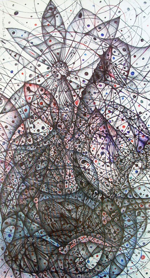 Original artwork by Jack Dillhunt, ballpoint pen on canvas, 36" x 24", copyright 2007, unauthorized reproduction is prohibited.